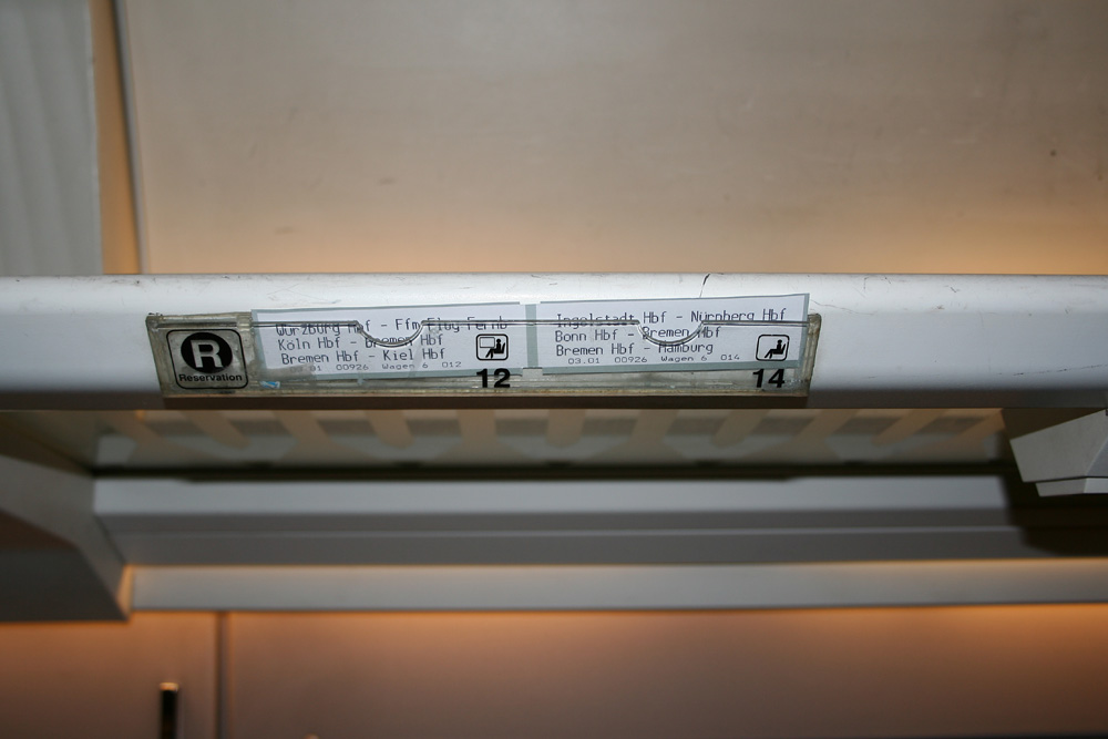 Reservation slips a 2nd class compartment of an ICE 1 high-speed train